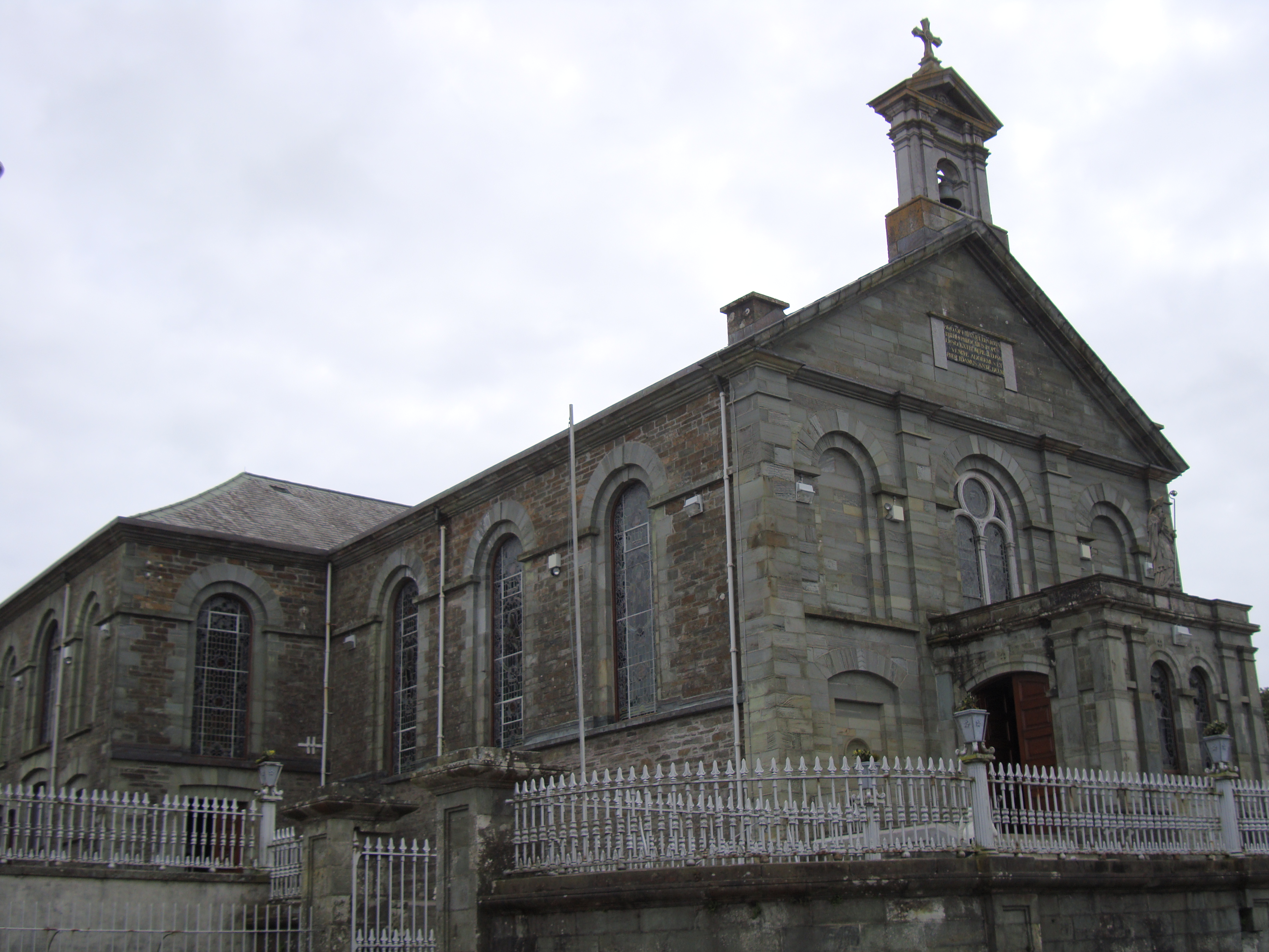 Photograph of Skibbereen Cathedral, Co. Cork, Republic of Ireland